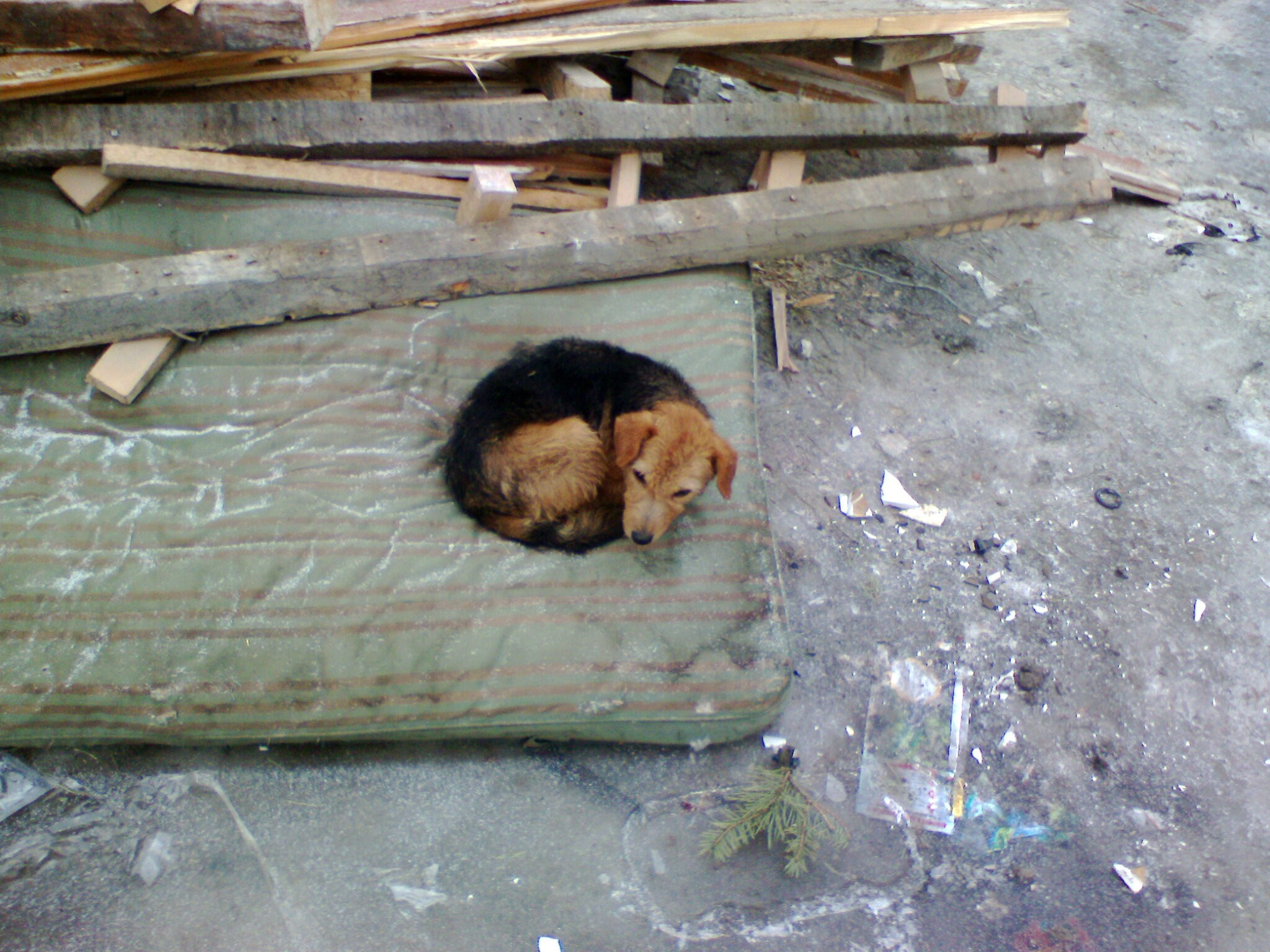 Poor puppy hiding in the old mattresses near debris